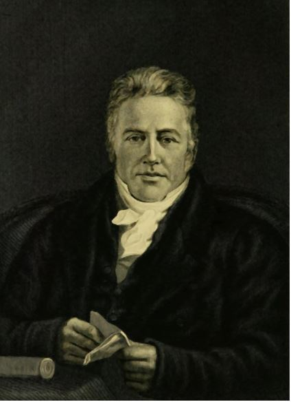 Photograph of painting of John Annandale. Died 1834